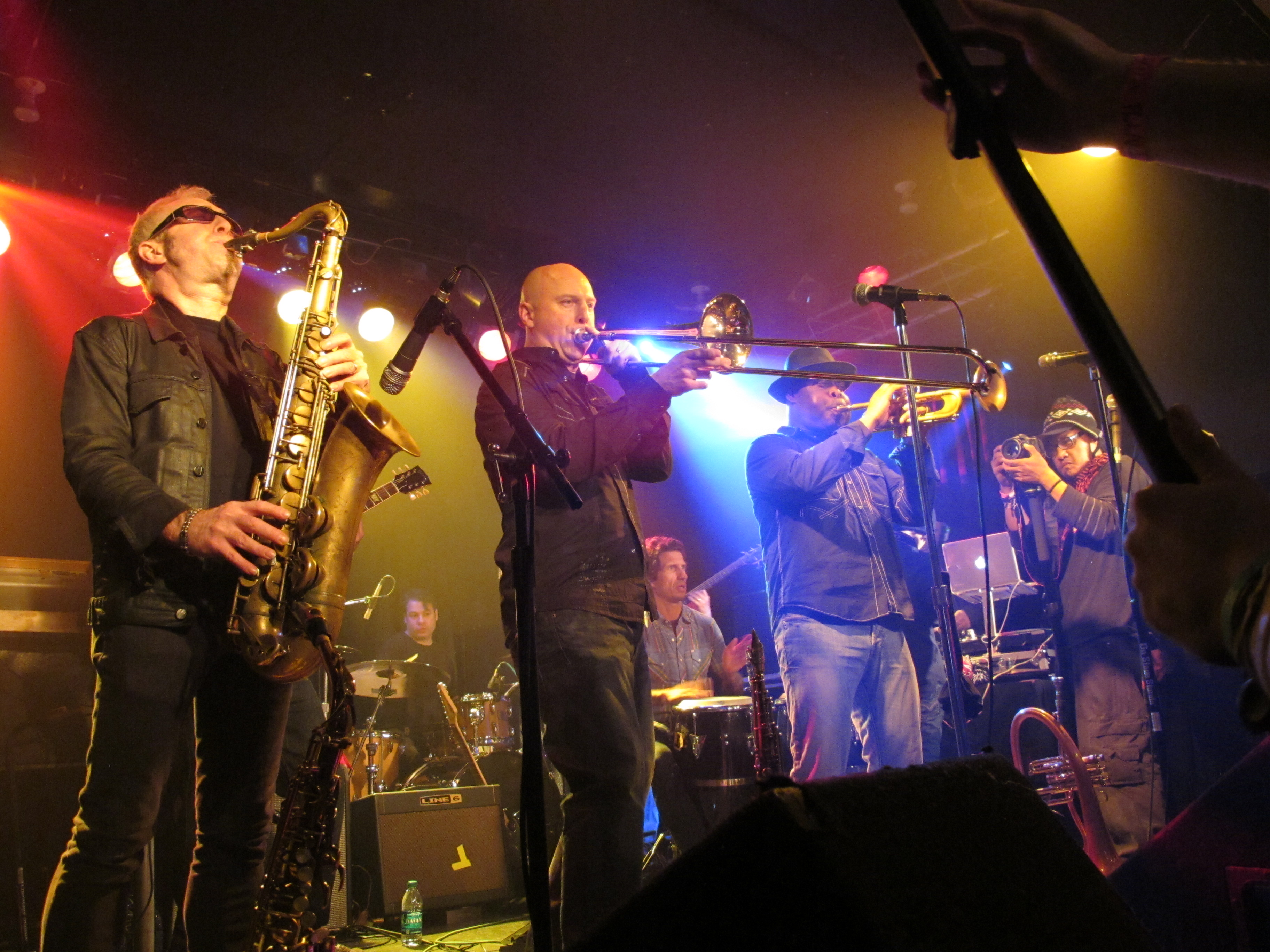 Liquid Soul Horn Line